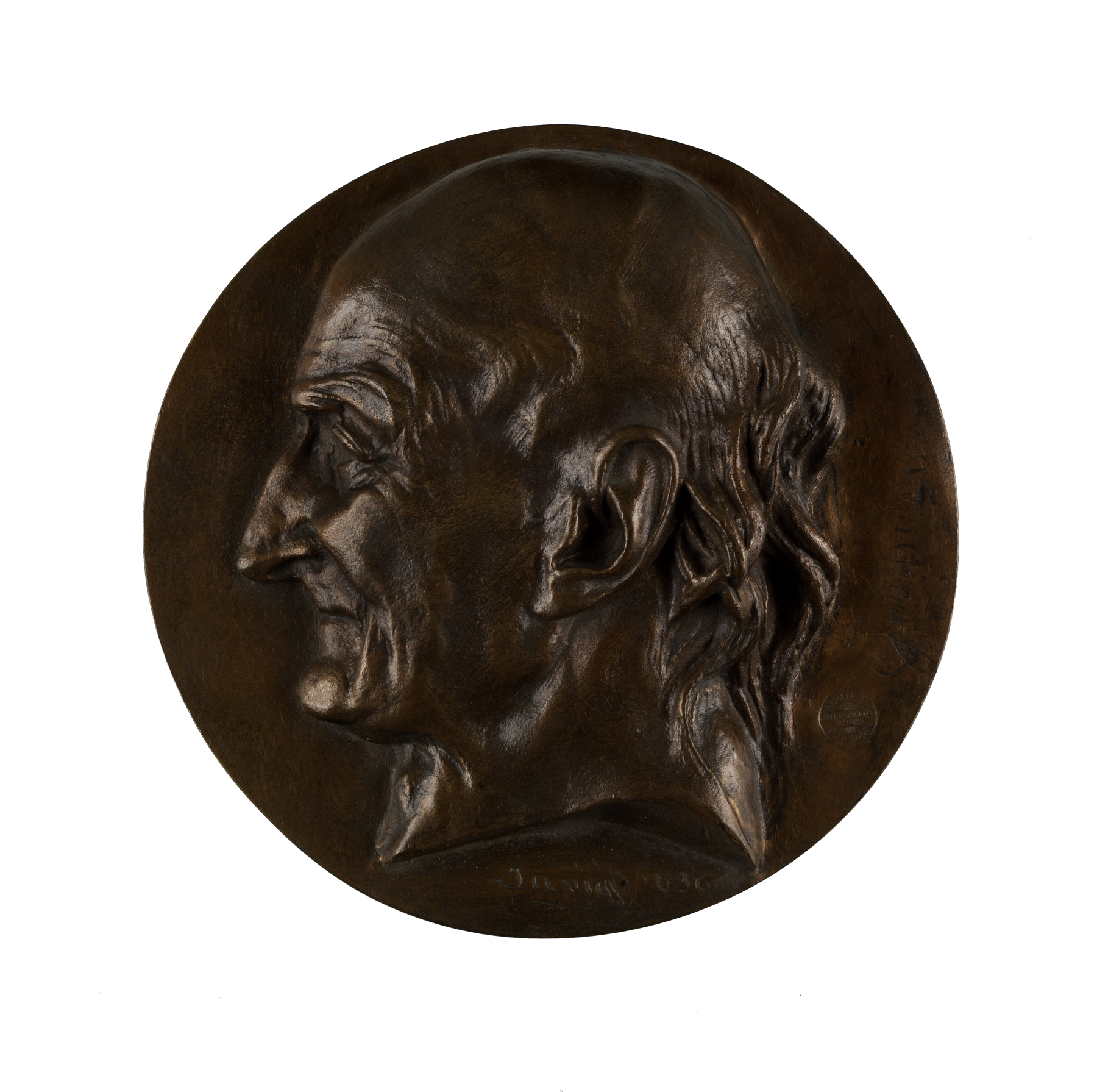 Antoine-Laurent Jussieu (1748-1836), French botanist, studied medicine and botany in Paris under his uncle Bernard de Jussieu. His work formed the basis for the modern method of botanical classifications. Instrumental in the establishment of the Muséum d'Histoire Naturelle in 1793, he selected every volume relating to natural history for its library. Jussieu was a member of the Académie des Sciences and professor at the museum until 1826, when his son, Adrien, succeeded him.